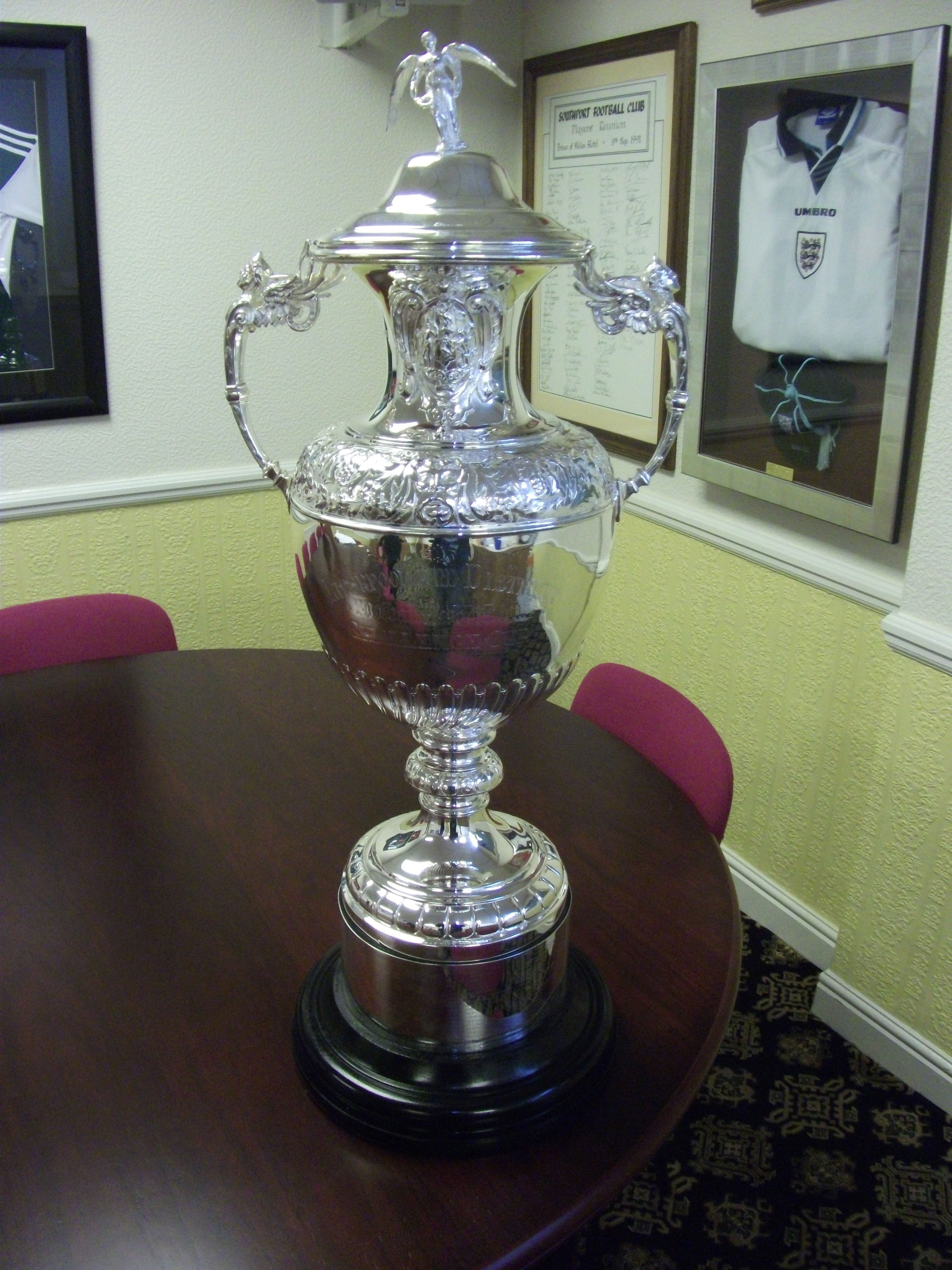 The Liverpool County Football Association Senior Cup, usually referred to as the Liverpool Senior Cup. Photographed in September 2011 in the boardroom of then-holders, Southport FC.